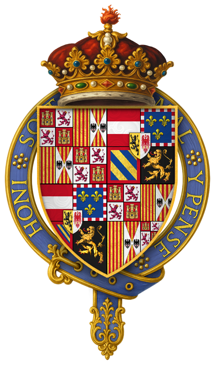 Coat of arms of Charles, Infant of Spain, Archduke of Austria, Duke of Burgundy See the stall plate, still intact, within its original stall at St. George's Chapel.